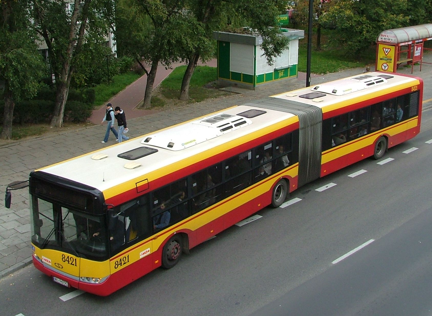 Poland, Warsaw, Praga Południe, Grochów, Ostrobramska Street. Solaris Urbino 18 bus (#8421) built 2005, MZA Warszawa operator.